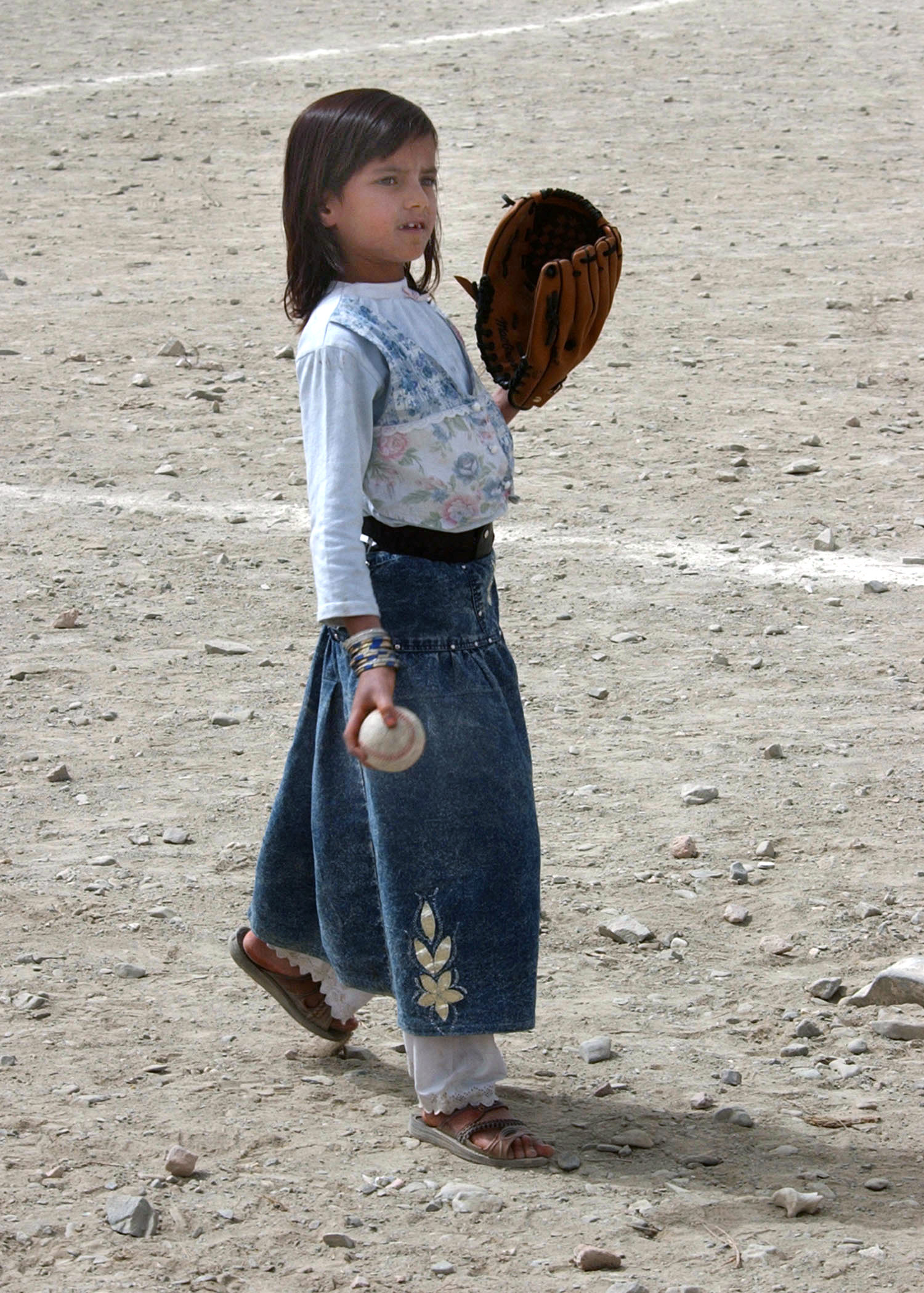 An Afghan girl plays with her baseball and glove at Camp Harriman, located in the Orgun District (Paktika Province) of Afghanistan, during Operation ENDURING FREEDOM. Mr. Jay Smith, 96th Civil Affairs Battalion, donated the baseball equipment and this girl is reportedly the first Afghan girl, from her area, to ever own a ball and glove.